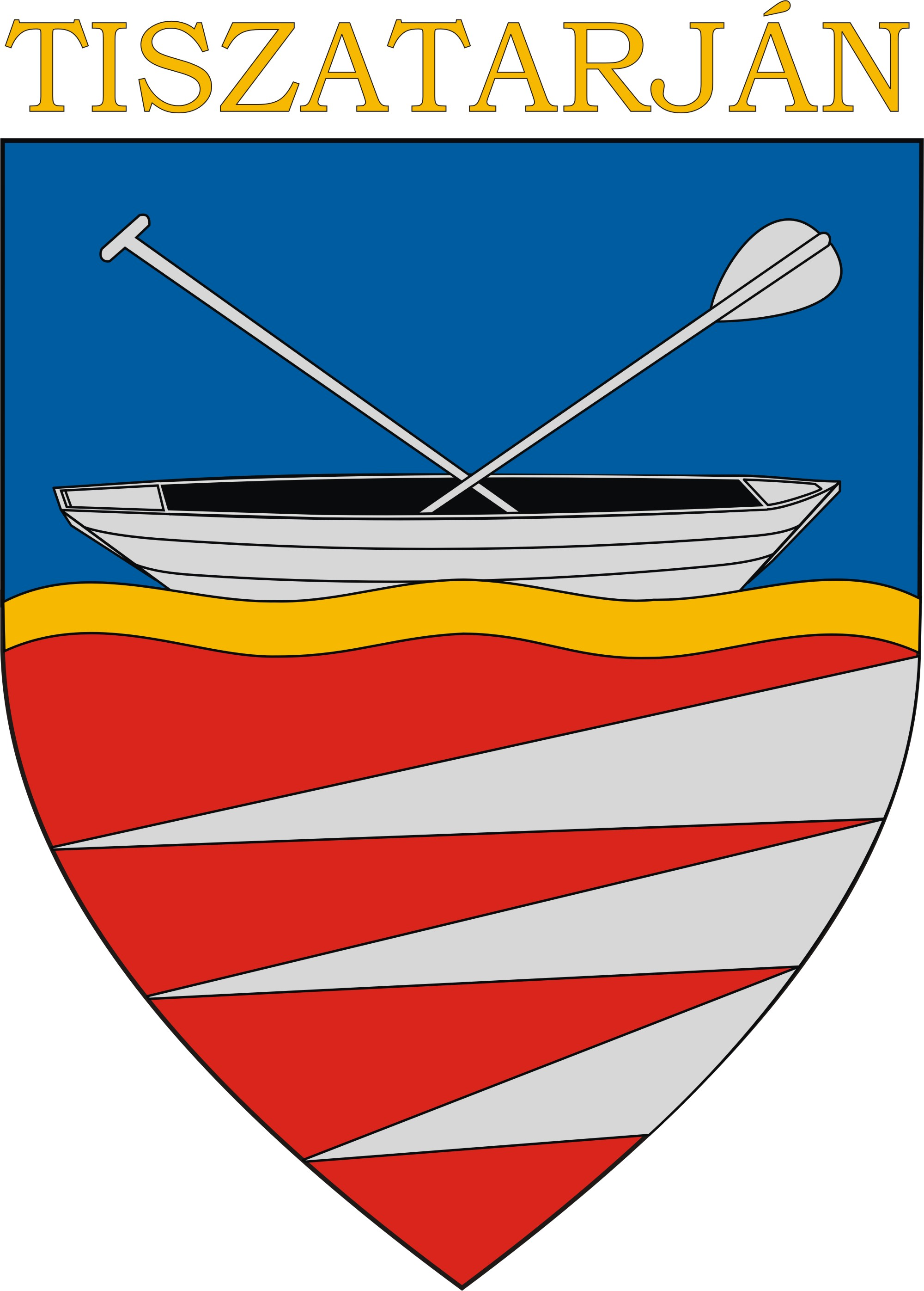 Coat of arms of Tiszatarján, Hungary